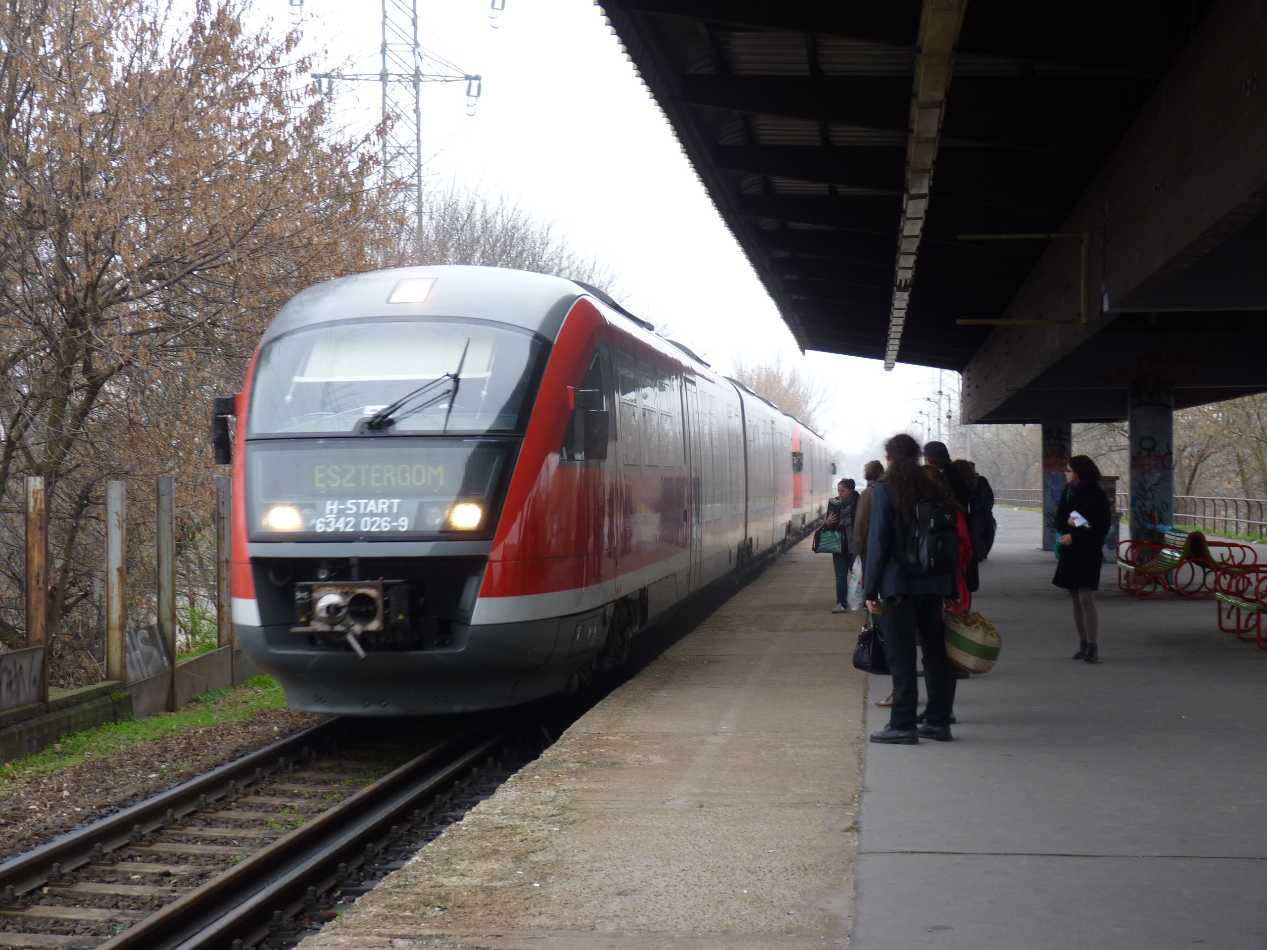 Újpest train station with MÁV-Start-operated Siemens Desiro train heading for Esztergom